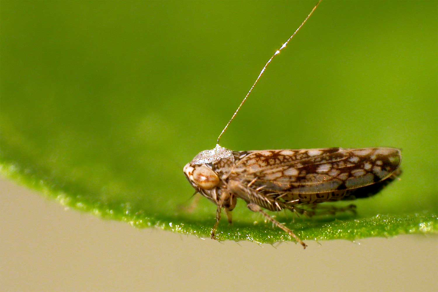 The common brown leafhopper, Orosius orientalis connected via silver glue and thin gold wire to Electrical Penetration Graph